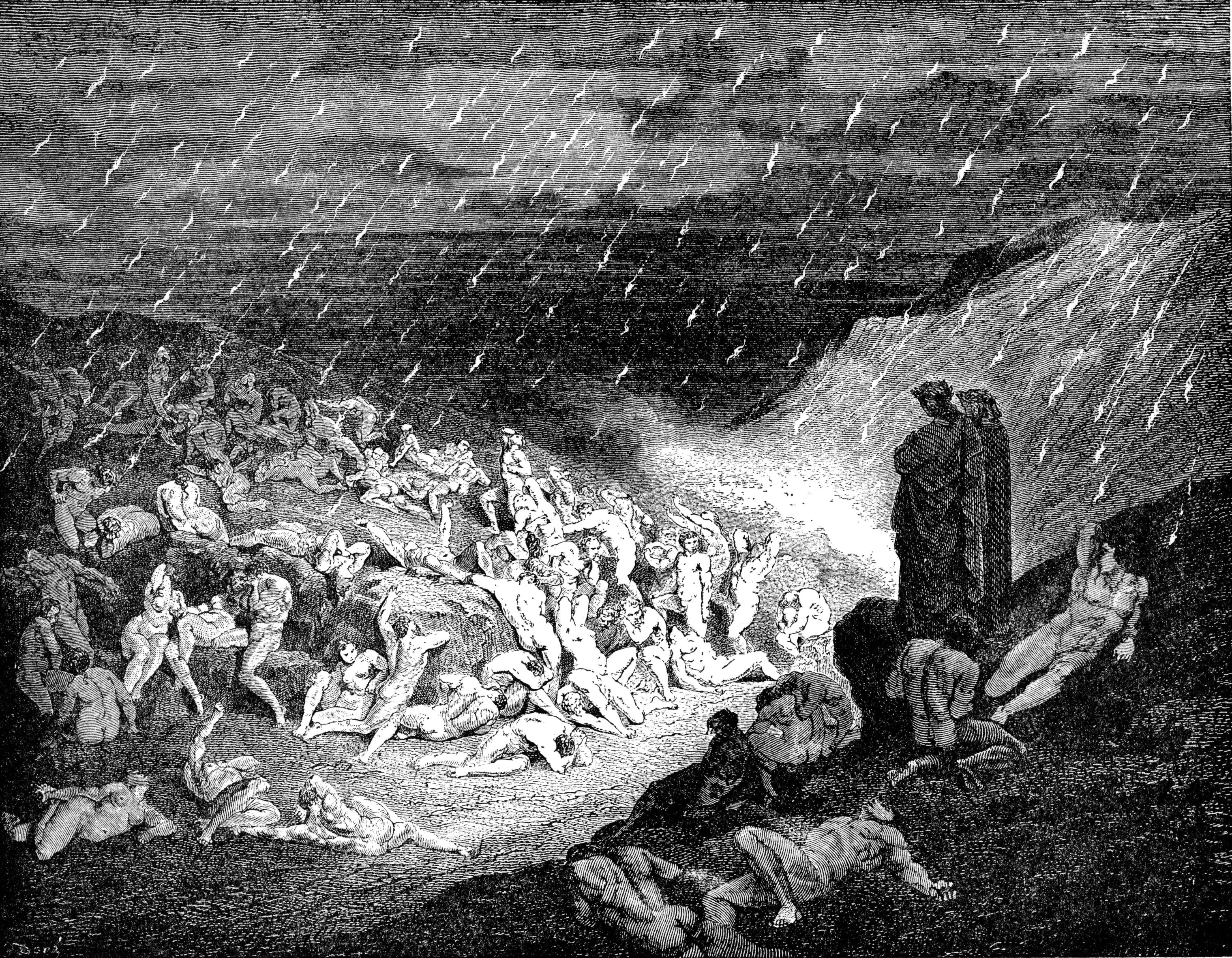 High resolution scan of engraving by Gustave Doré illustrating Canto XIV of Divine Comedy, Inferno, by Dante Alighieri. Caption: The Violent, tortured in the Rain of Fire